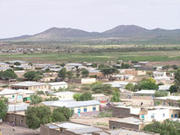 Borama, Somalia